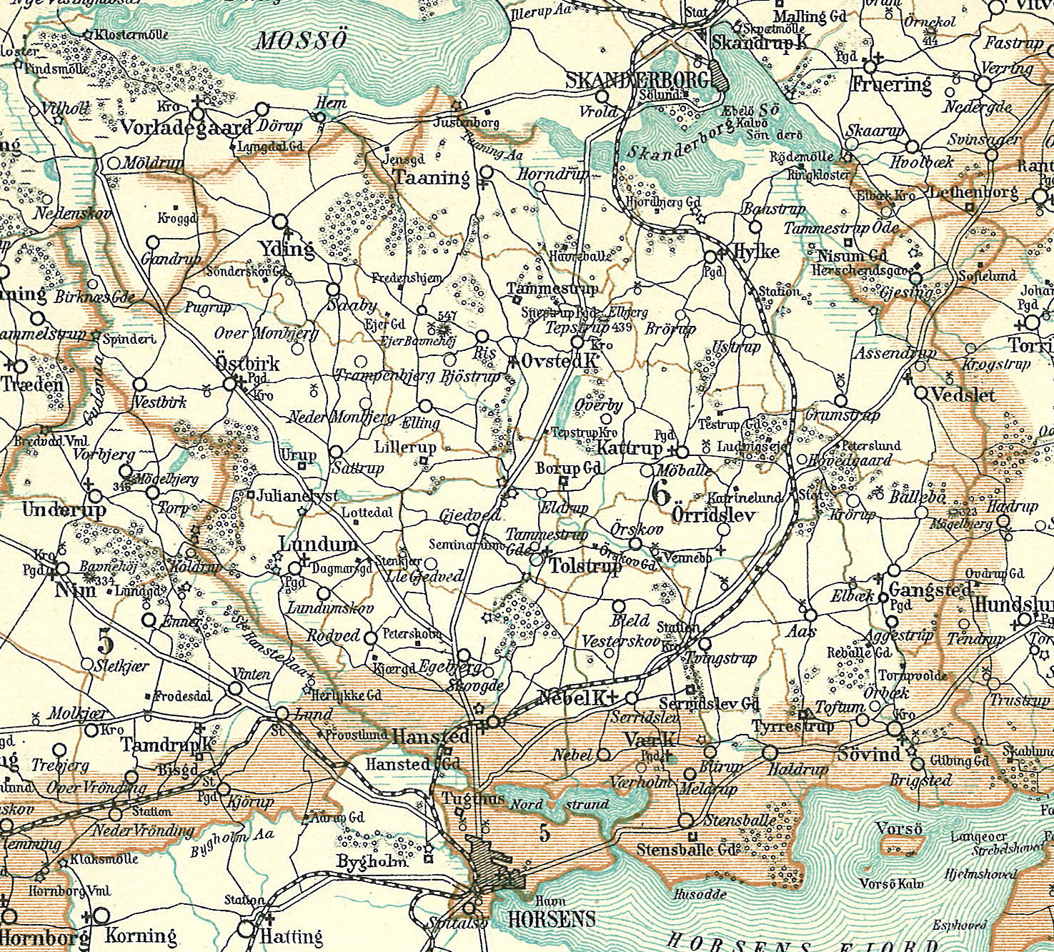 Map of Voer Herred in Skanderborg County in Denmark